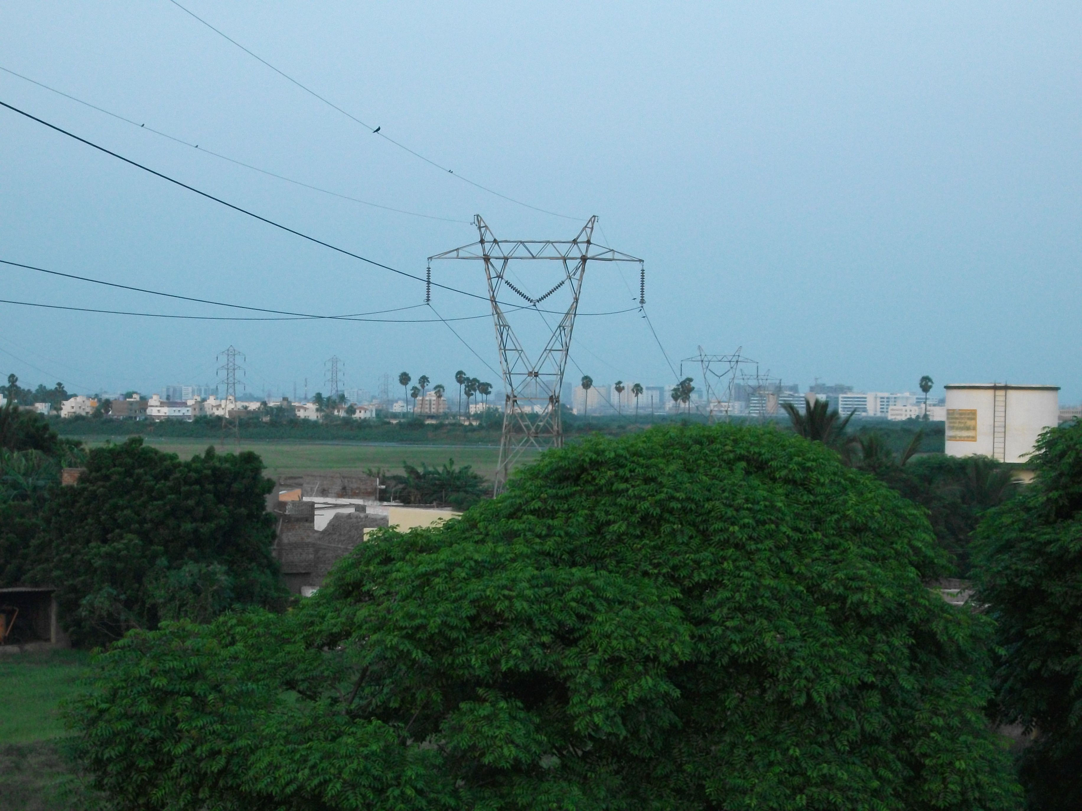 A view of IT SEZ (Sholinganallur) from Sithalapakkam